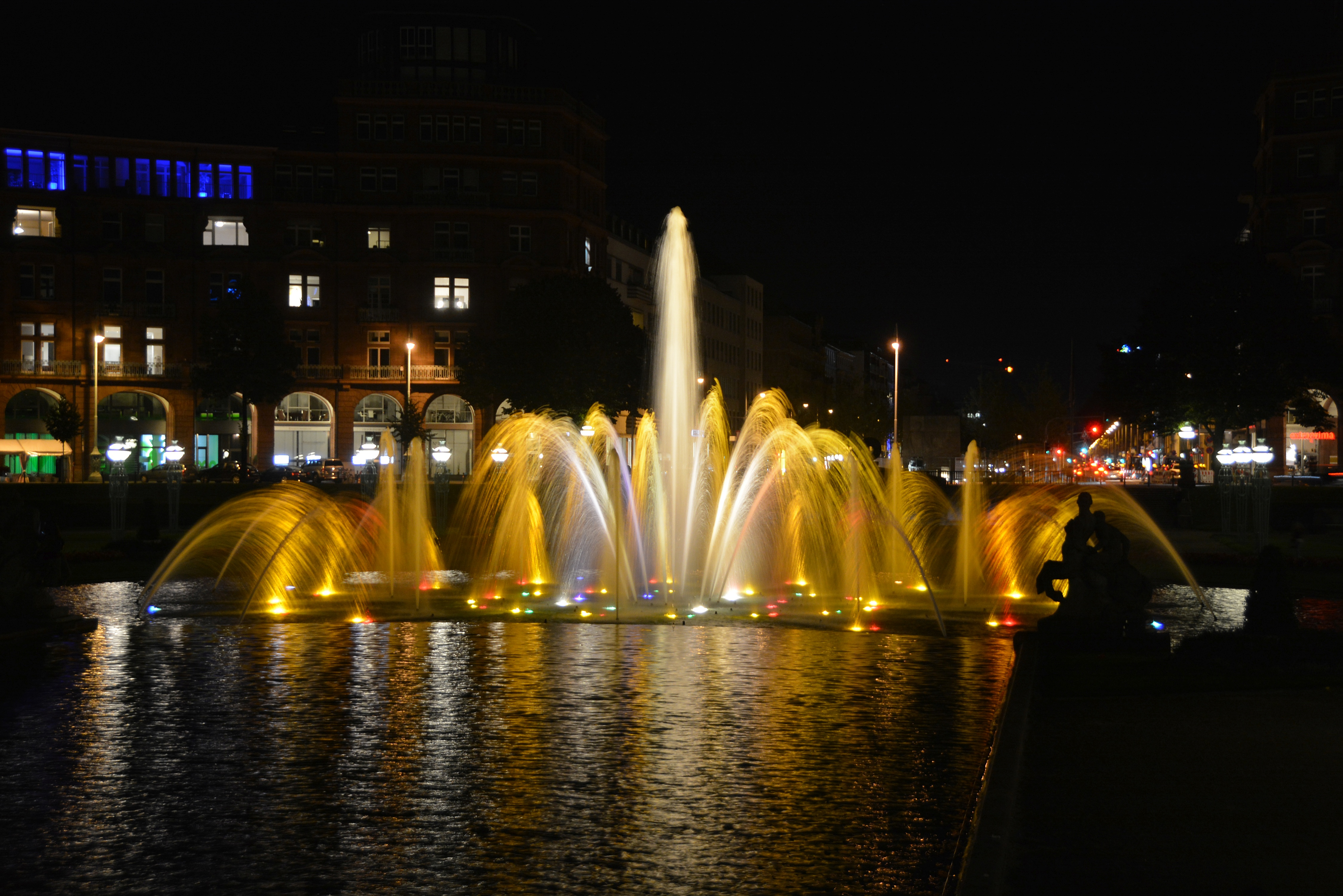 Water fountain at Friedrichsplatz in Mannheim (Germany) near the Watertower of Mannheim, Sunday evening in colors